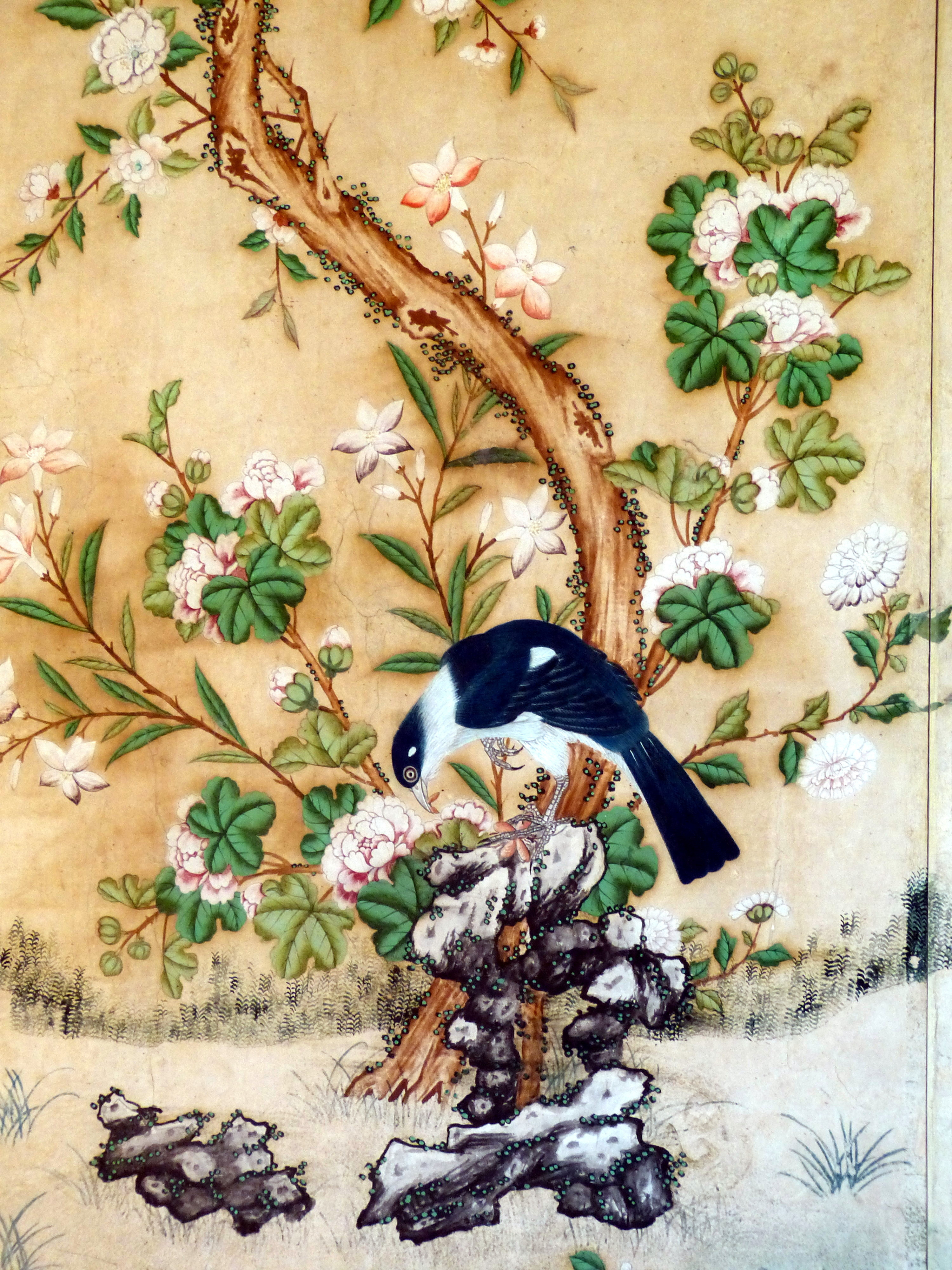 Salzburg ( Austria ). Hellbrunn palace: Chinese room - Painted Chinese wallpaper ( 1750 ) with bird.